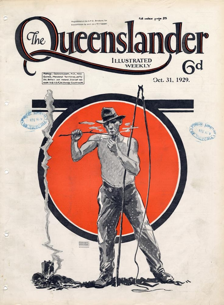 Creator: Garnet Agnew Location: Queensland, Australia Description: A stockman lights his pipe with a small smouldering stick from the camp fire. He is holding a stockwhip. View this page at the State Library of Queensland Information about State Library of Queensland’s collection